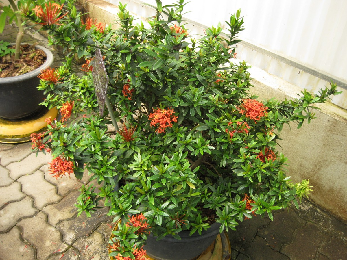 Photographed at the Queen Sirikit Botanic Garden (Chiang Mai Province, Thailand) in March